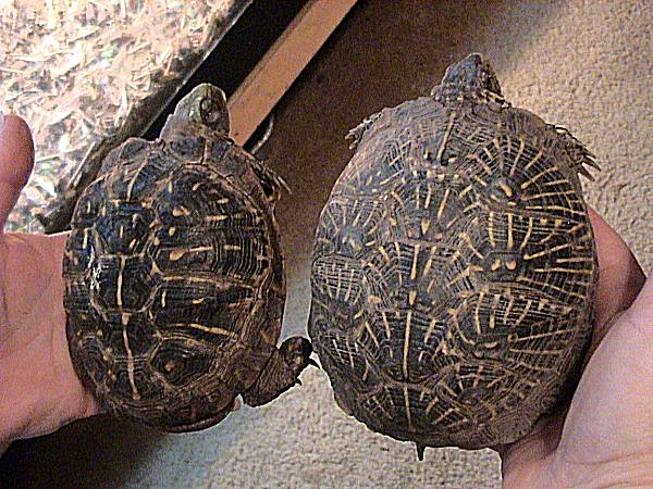 Terrapene ornata ornata (left) and Terrapene ornata luteola (right) Also known as the Ornate Box Turtle (left) and the Desert Box Turtle (right) Photographer: LA Dawson Animals courtesy of Austin Reptile Service.